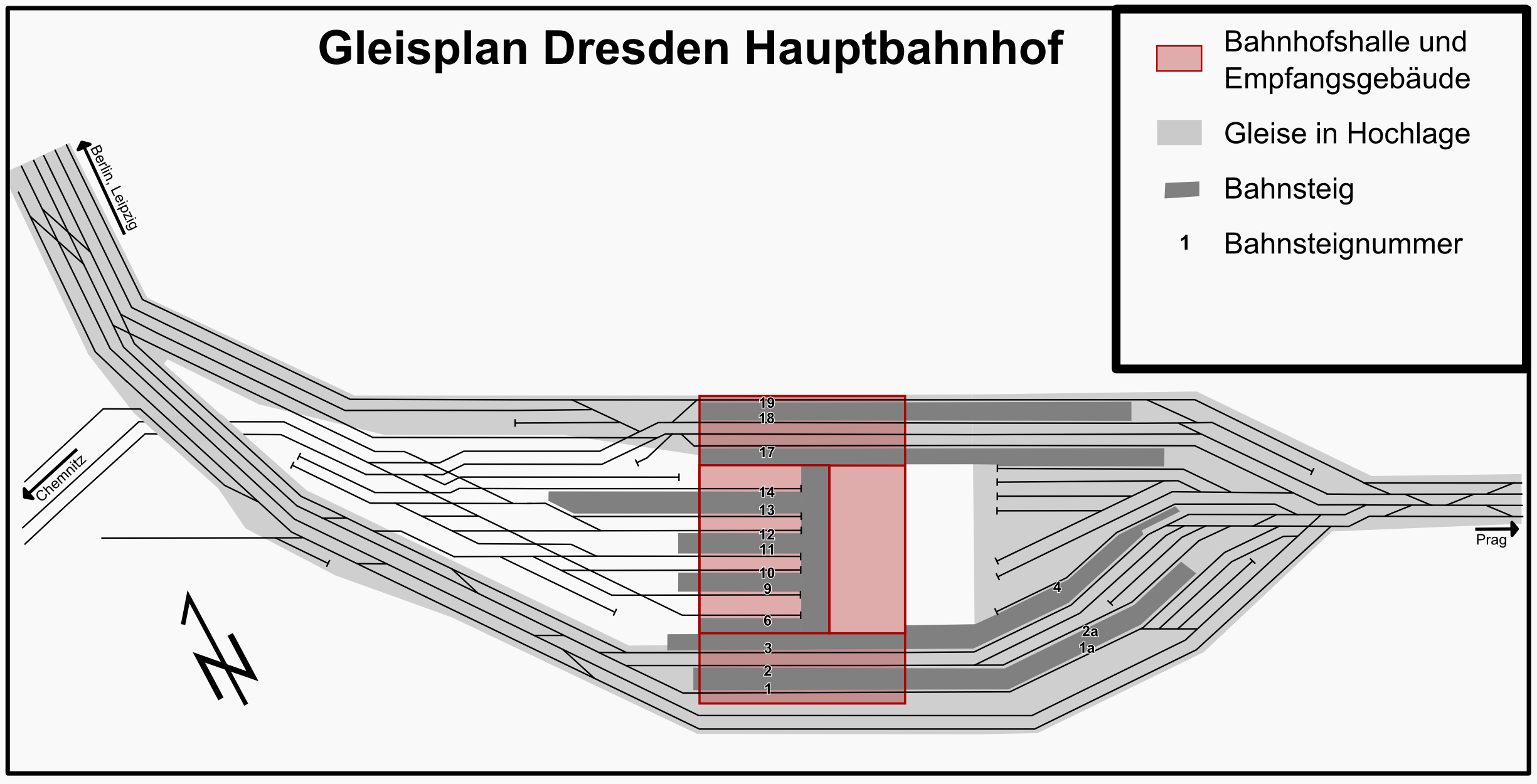 map of Dresden Main Station.